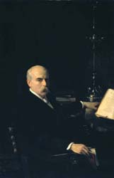 Ingram Bywater, Regius Professor of Greek at Oxford